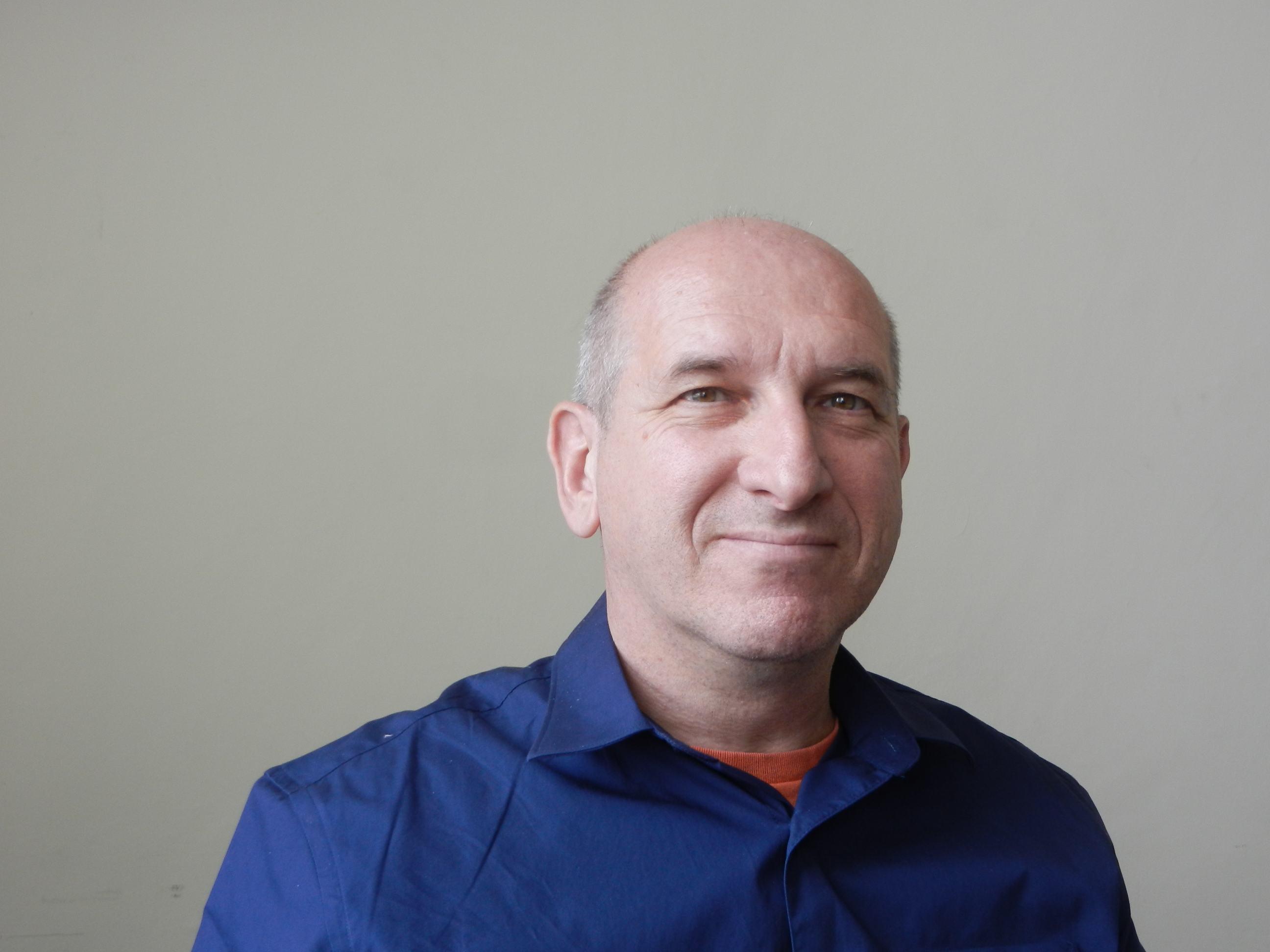 Michel Bauwens in Quito, Ecuador, Sept. 2013